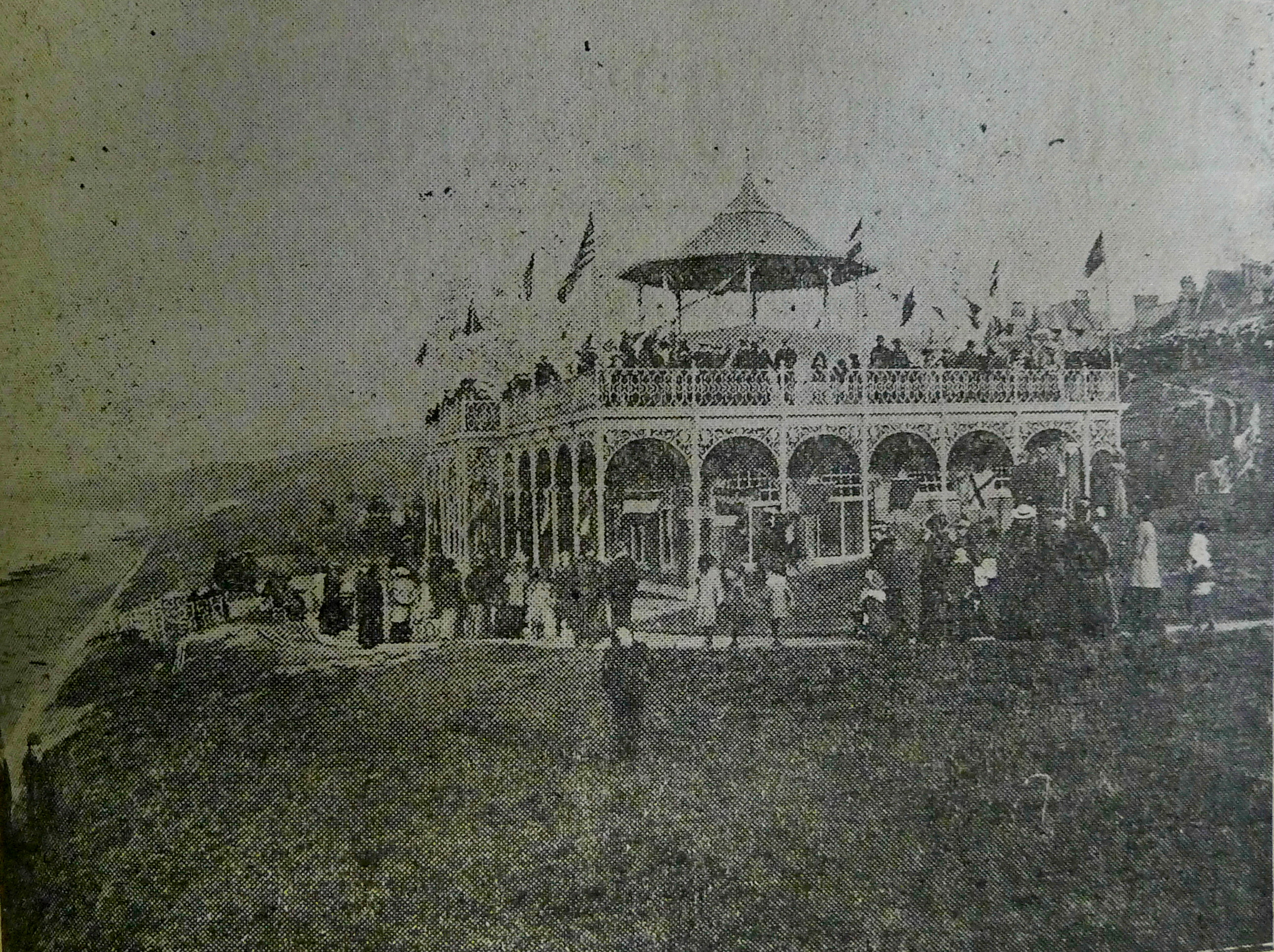 The Pavilion or Bandstand (later called the King's Hall), Herne Bay, Kent, England, on Opening Day of its first phase, 4 April 1904. Points of interest There is a band playing in the bandstand. The bandstand no longer exists on top of King's Hall.